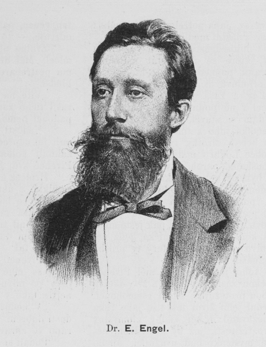 Portrait of Emanuel Engel (1844-1907), Czech physician and politician.